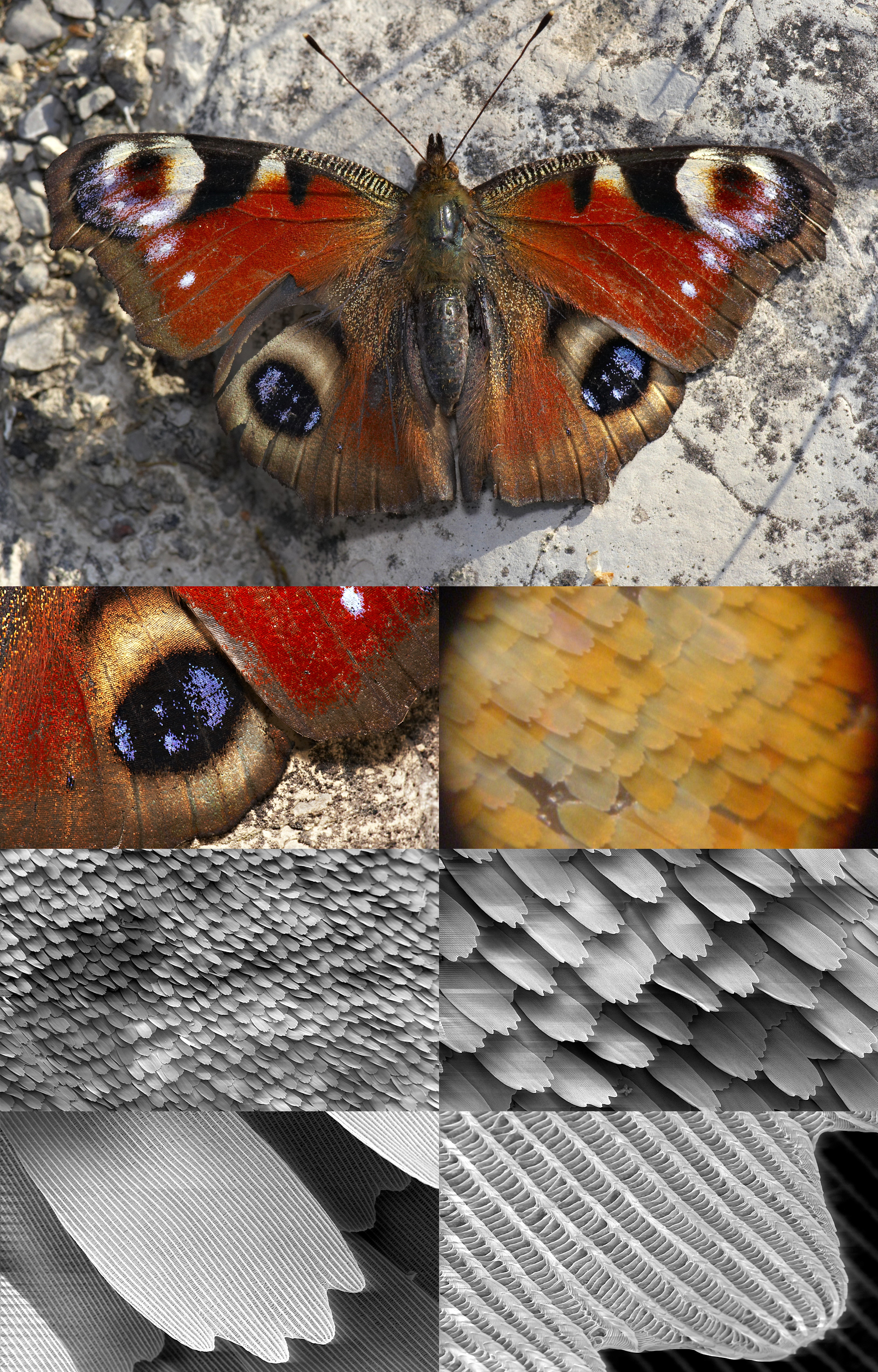 Series of photographs in increasing magnification showing a butterfly and scale structure of butterfly wings